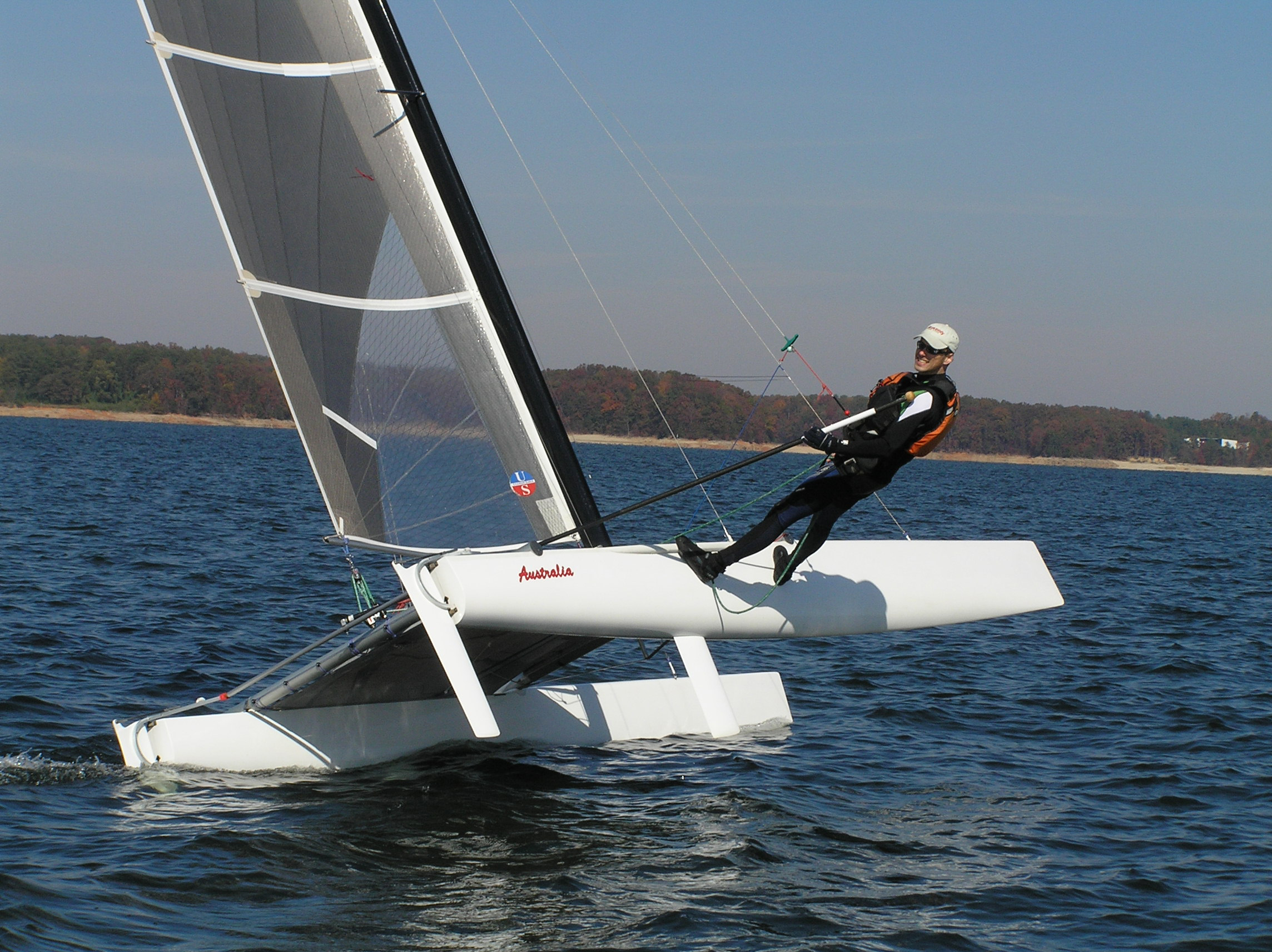 Boyer Mk IV A class catamaran.